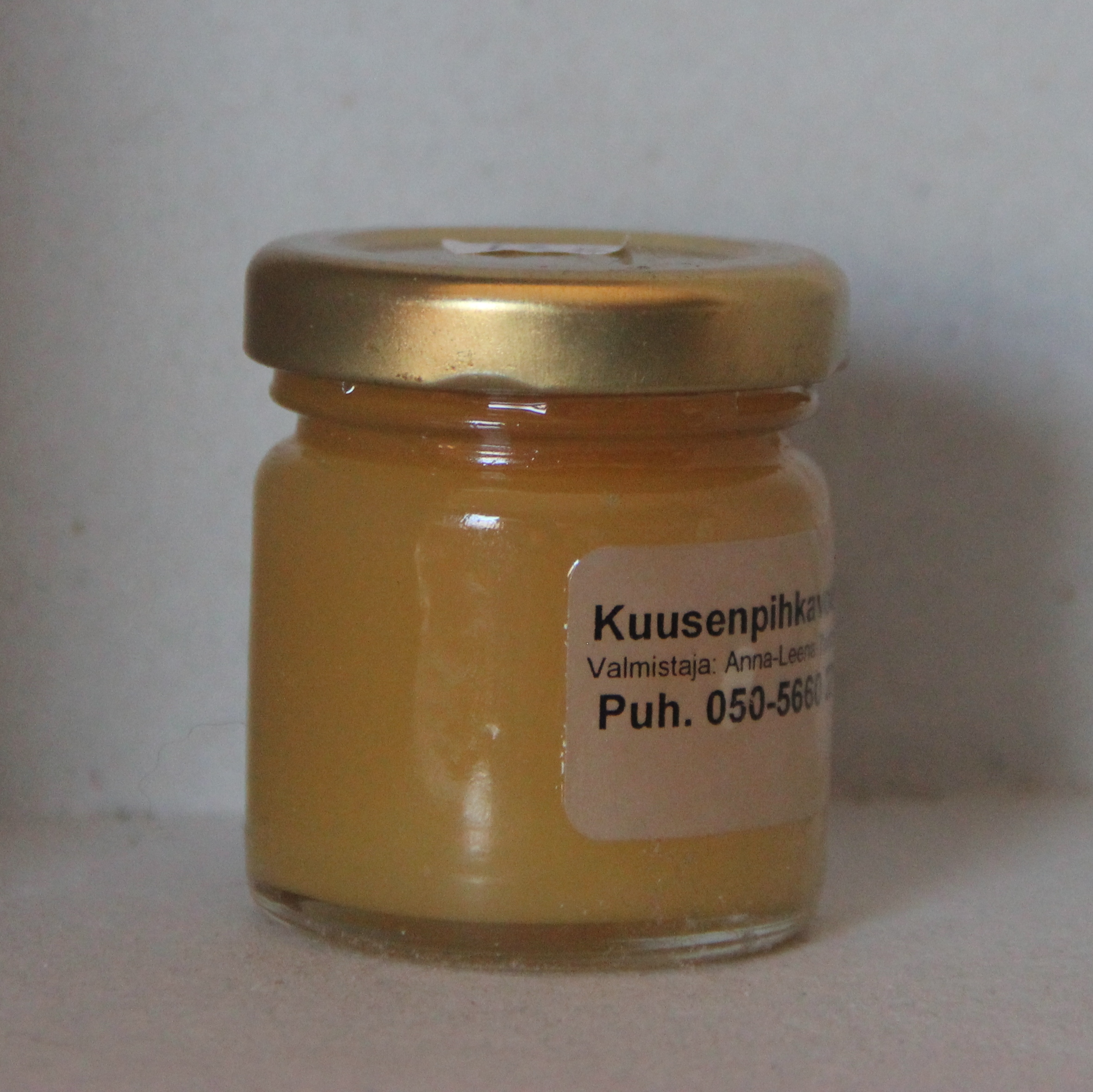 Resin of fir